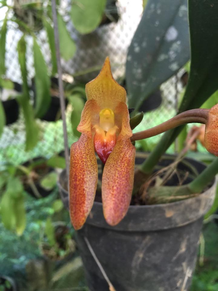 Flower of Bulbophyllum cootesii